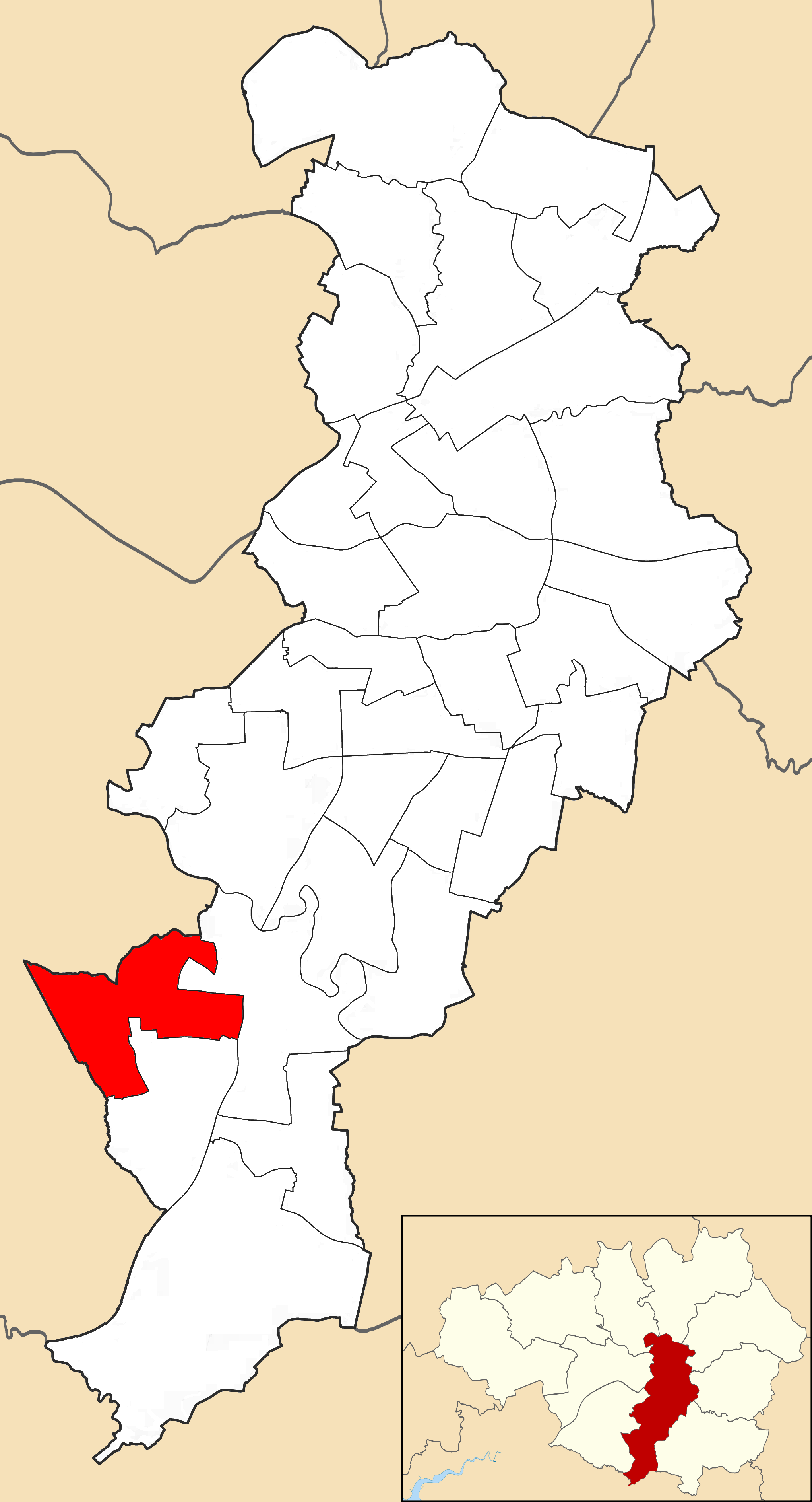 Map showing location of Brooklands ward within Manchester City Council.